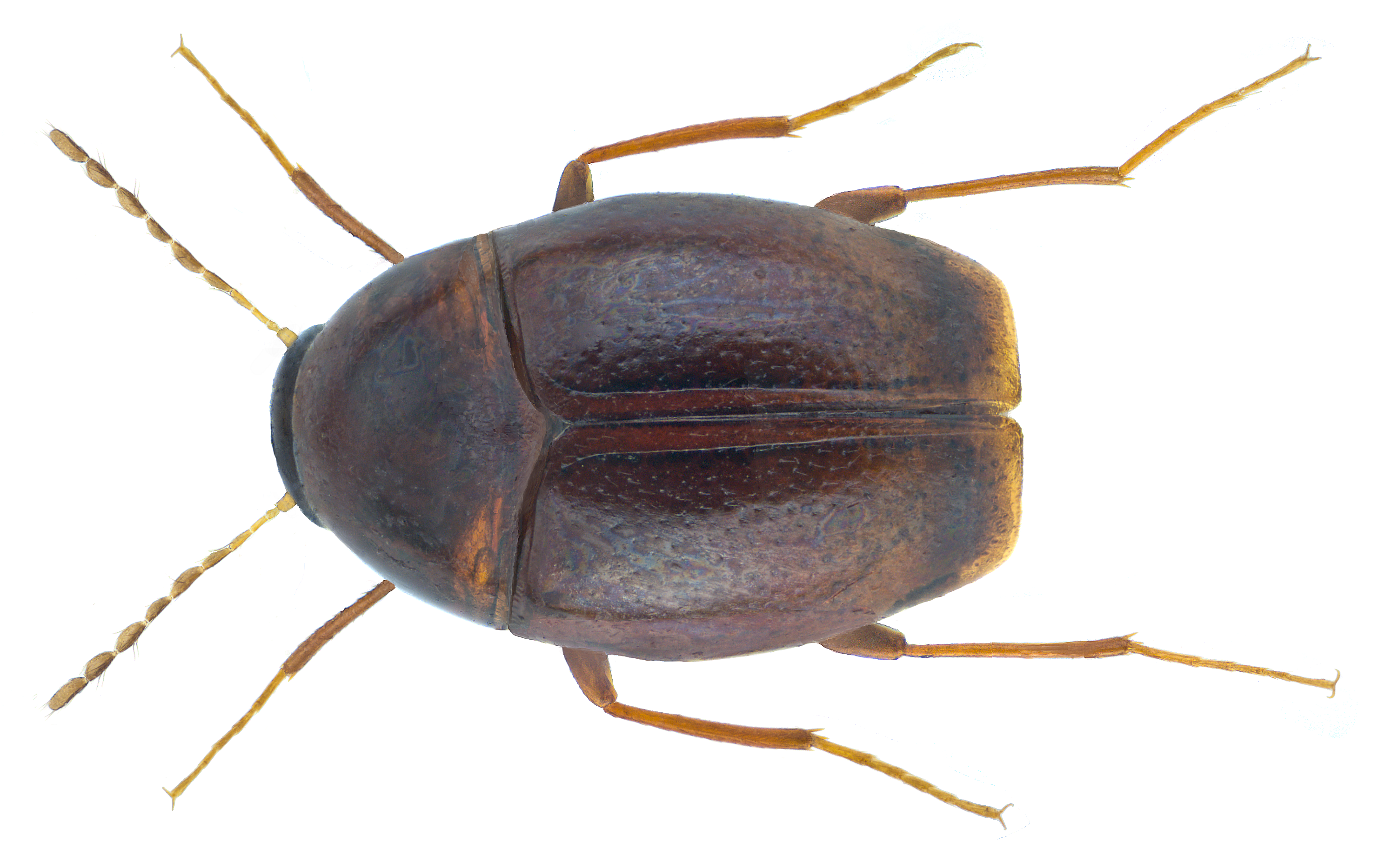 Family: Staphylinidae (Scaphidiidae) Size: 1,9 mm Distribution: Europe, Caucasus Ecology: animals live in mushrooms Location: Austria, Burgenland, Neusiedler See leg.det. J.Scheuern, 28.VI.1991 Photo: U.Schmidt, 2015